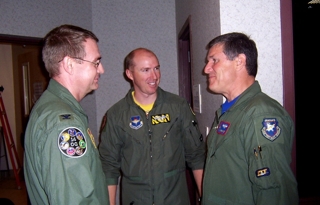 Colonel David Reth, 14th Operations Group commander, and Capt. Nick Johnson, 37th Flying Training Squadron, thank James Brown III, Lockheed Martin Aeronautics test pilot, for his F-22 presentation to Columbus AFB instructor and student pilots. Mr. Brown is the Lead Test Pilot for the F-22 Raptor Program at Edwards AFB, Calif., where he conducts airborne testing for envelope expansion, structural loads, avionics, countermeasures and weapons.